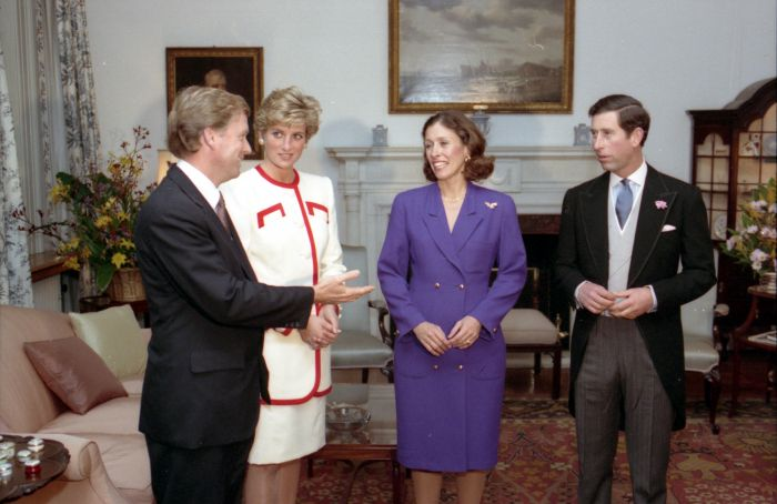 Vice President and Mrs. Quayle visit with Prince Charles and Princess Diana at the British Ambassador's residence the day following the Imperial Enthronement Ceremony for Emperor Akihito in Tokyo, Japan